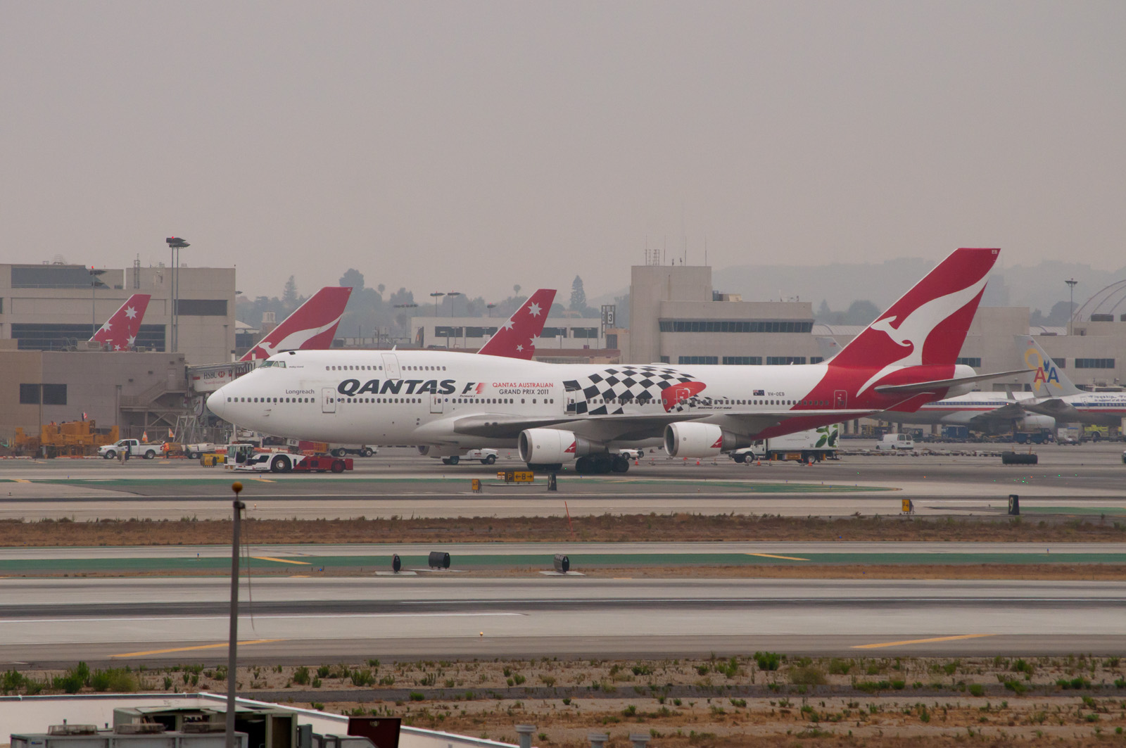 This special liveried aircraft is unusual in that it is powered by General Electric CF6-series engines rather than the usual Rolls Royce RB211 series Qantas normally specifies. It had originally been built in 1993 as Asiana Airlines' first all-passenger 747, registered HL7416. The Asian Financial Crisis forced Asiana to give up the aircraft, and it has been flying for Qantas ever since. Sister ship HL7418, built in 1994, remains in Asiana service, and Asiana took delivery of HL7428 later in 1998 to replace HL7416. Asiana did specify General Electric engines for its 747 fleet, hence the CF6-series engines on this aircraft even in Qantas service. VH-OEB, Boeing 747-400